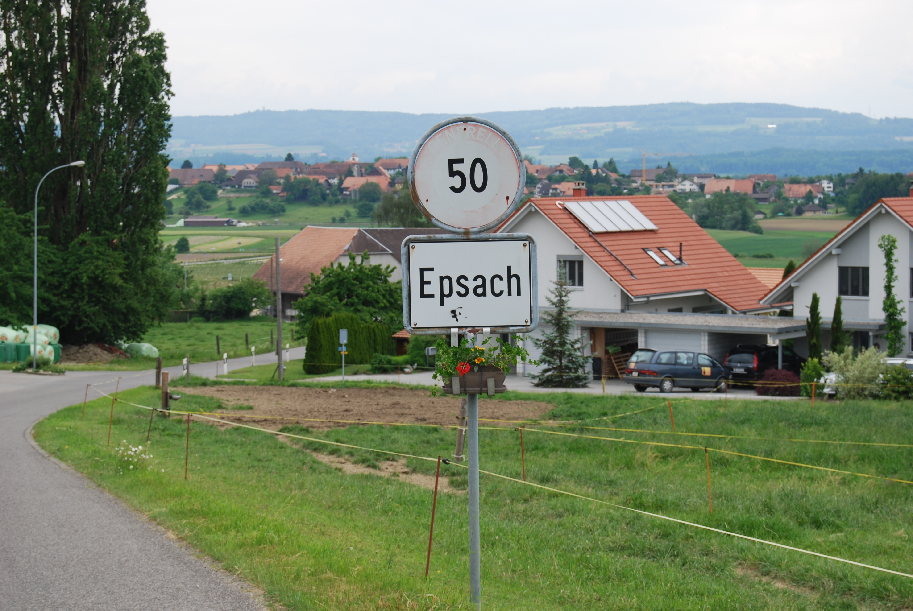 Epsach, canton of Bern, SwitzerlandEsperanto: Epsach, Kantono Berno, Svislando